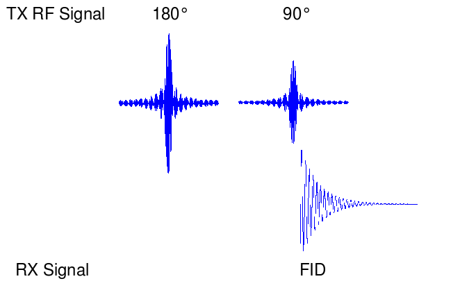 Signals in MR inversion recovery.